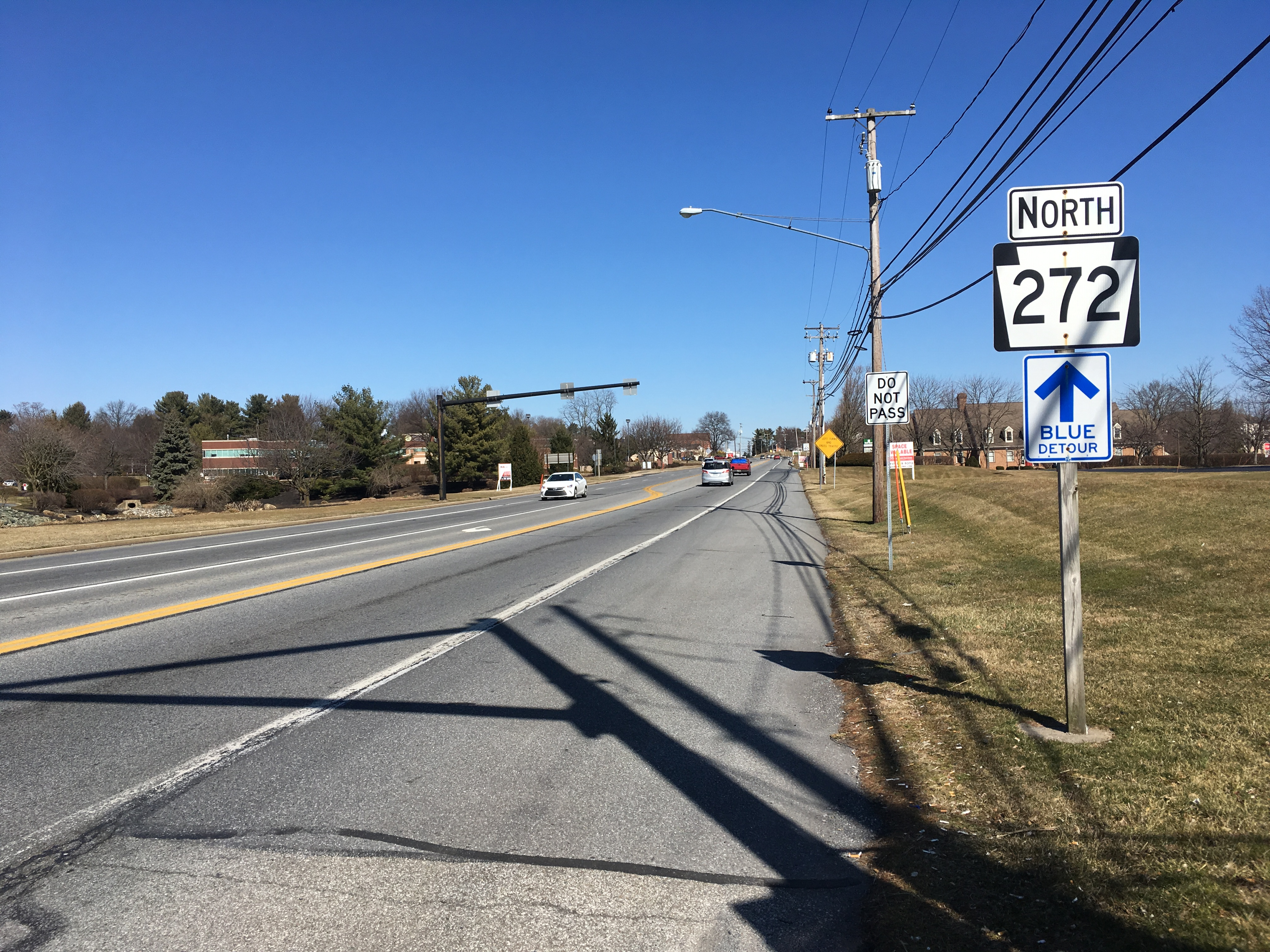 Northbound Pennsylvania Route 272 (Oregon Pike) past the intersection with Eden Road in Manheim Township, Pennsylvania